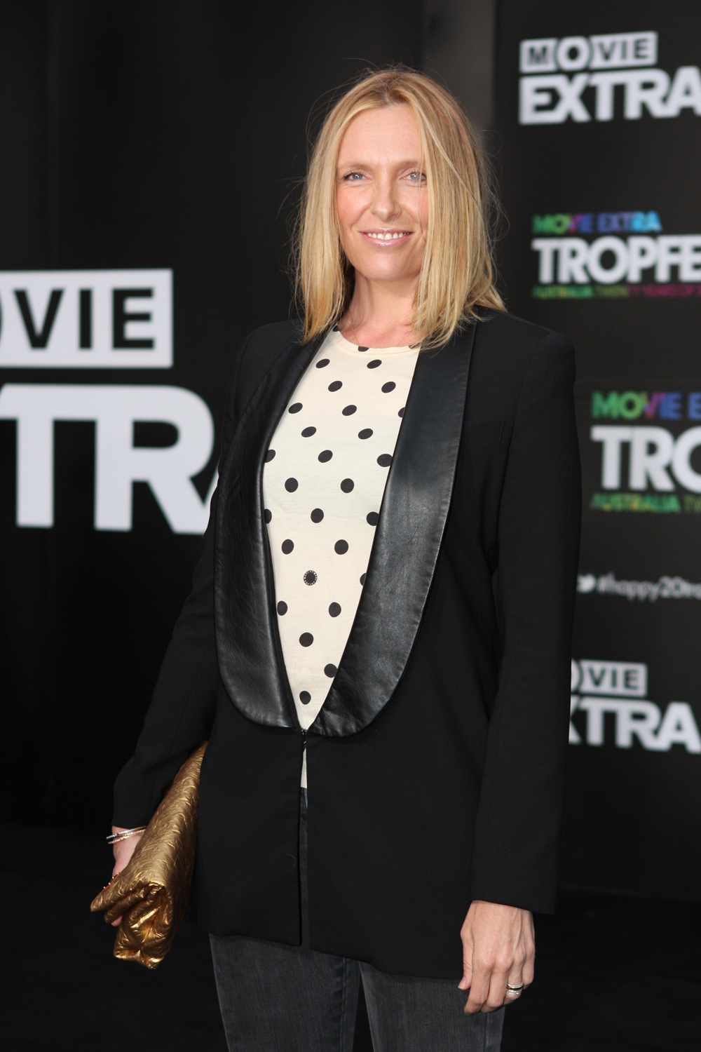 Tropfest Opens In Sydney, Australia - a celebration of 20 years of the iconic short film festival. It's estimated that about 150,000 people saw the event live, with the Sydney leg taking place at The Domain, and the forecast of rain (which got heavier as the night went on) didn't appear to dip the crowd. Recognized as the largest short film festival in the world, Tropfest is also praised for "its enormous contribution to the development of the Australian film industry by providing unique platforms for emerging filmmakers through its events and initiatives, and new and expanded audiences for their work." Finalists... KITCHEN SINK DRAMA, THE UNUSUAL SUSPECTS, THE MISTAKE, RGB, PHOTO BOOTH, ONE THING, MY CONSTELLATION, MIN MIN, MATCHBOX BROTHERS, LEMONADE STAND, JACK & LILY, “I’M FREE TO BE ME”, HOW MANY MORE DOCTORS DOES IT TAKE TO CHANGE A LIGHTBULB?, BOO!, ALICE’S BABY Tropfest (Australia) Tropfest Eva Rinaldi Photography Flickr Eva Rinaldi Photography Music News Australia